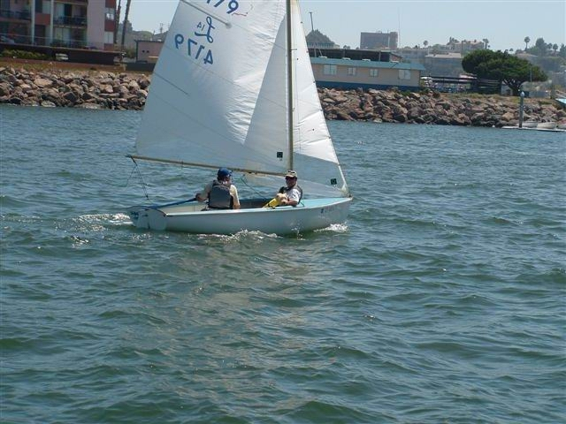 Bruce and crew during Lido 14 day sail with Don.